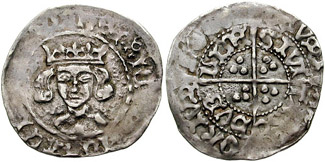 Ireland. Henry VII of England. 1485-1509. AR Groat (1.84 g). Class III, 1496-1505. Dublin mint. Broad facing head, wearing open flat crown with no tressure SIVITAS(sic) DVBLINE in angles of cross. Cf. SCBI 22, 404; SCBC 6464A. Toned, good VF. Rare spelling variant.